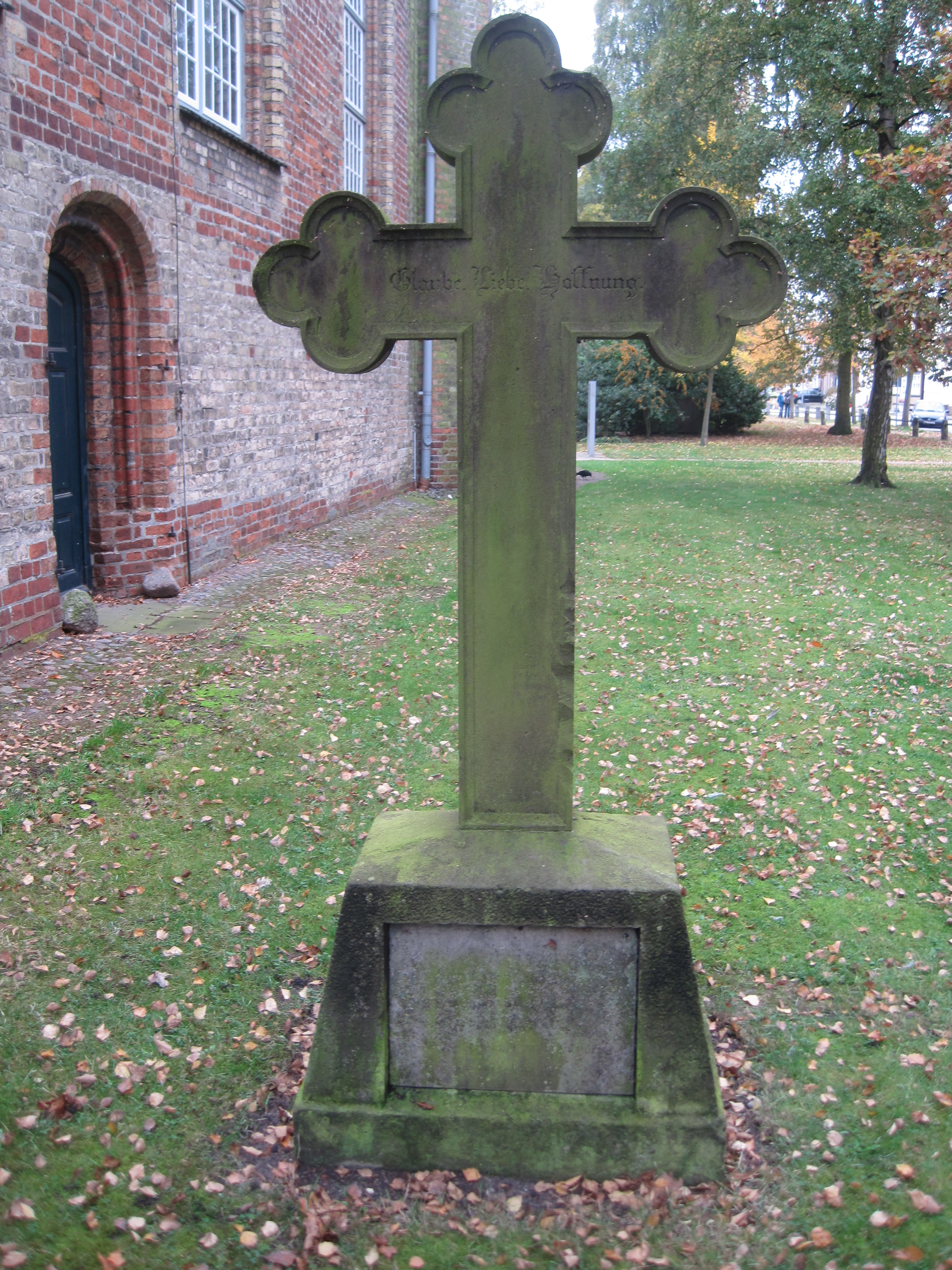 St. Lorenz, Travemünde